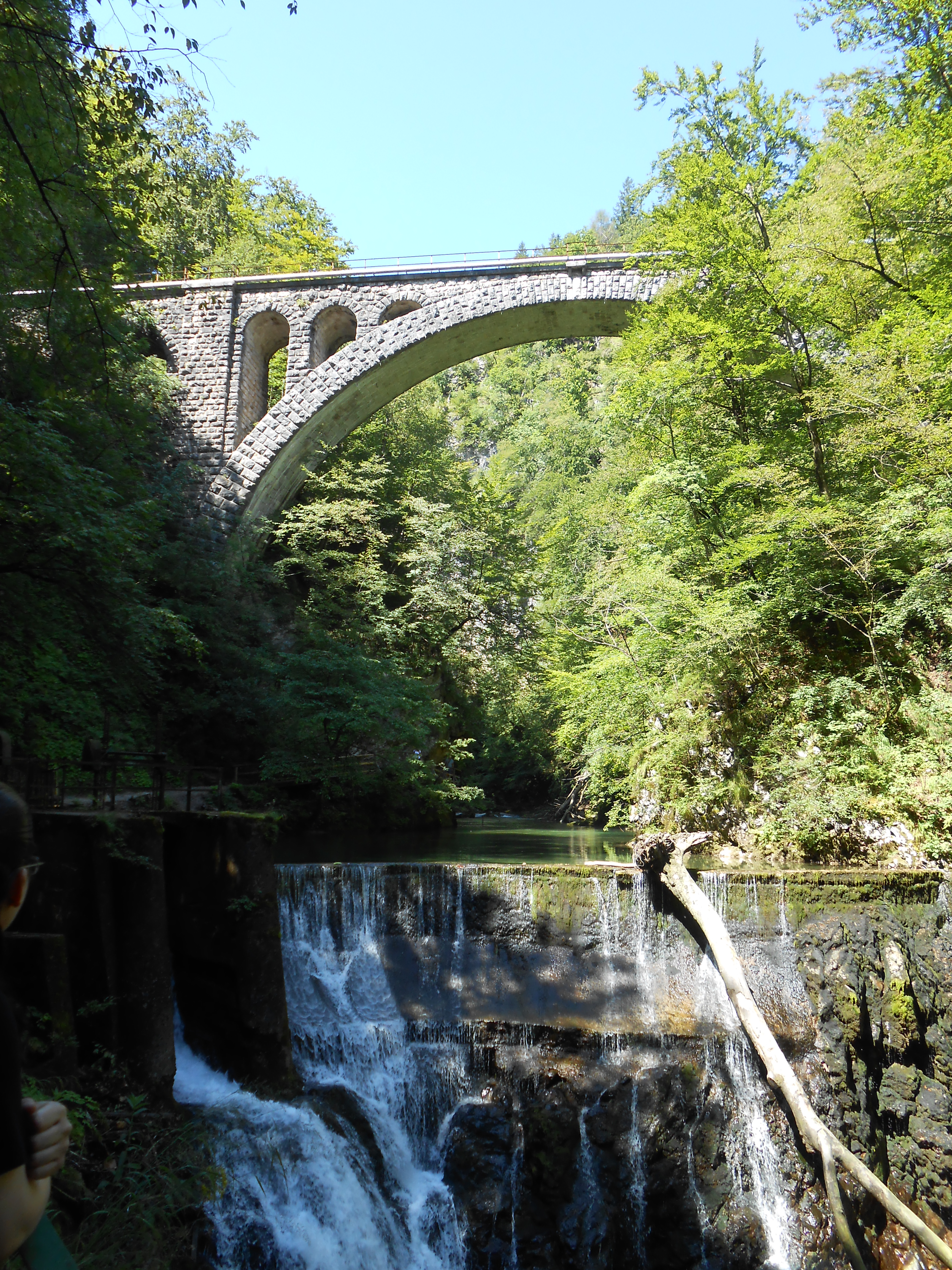 Vintgar, Radovna River Gorge, near Bled, Slovenia